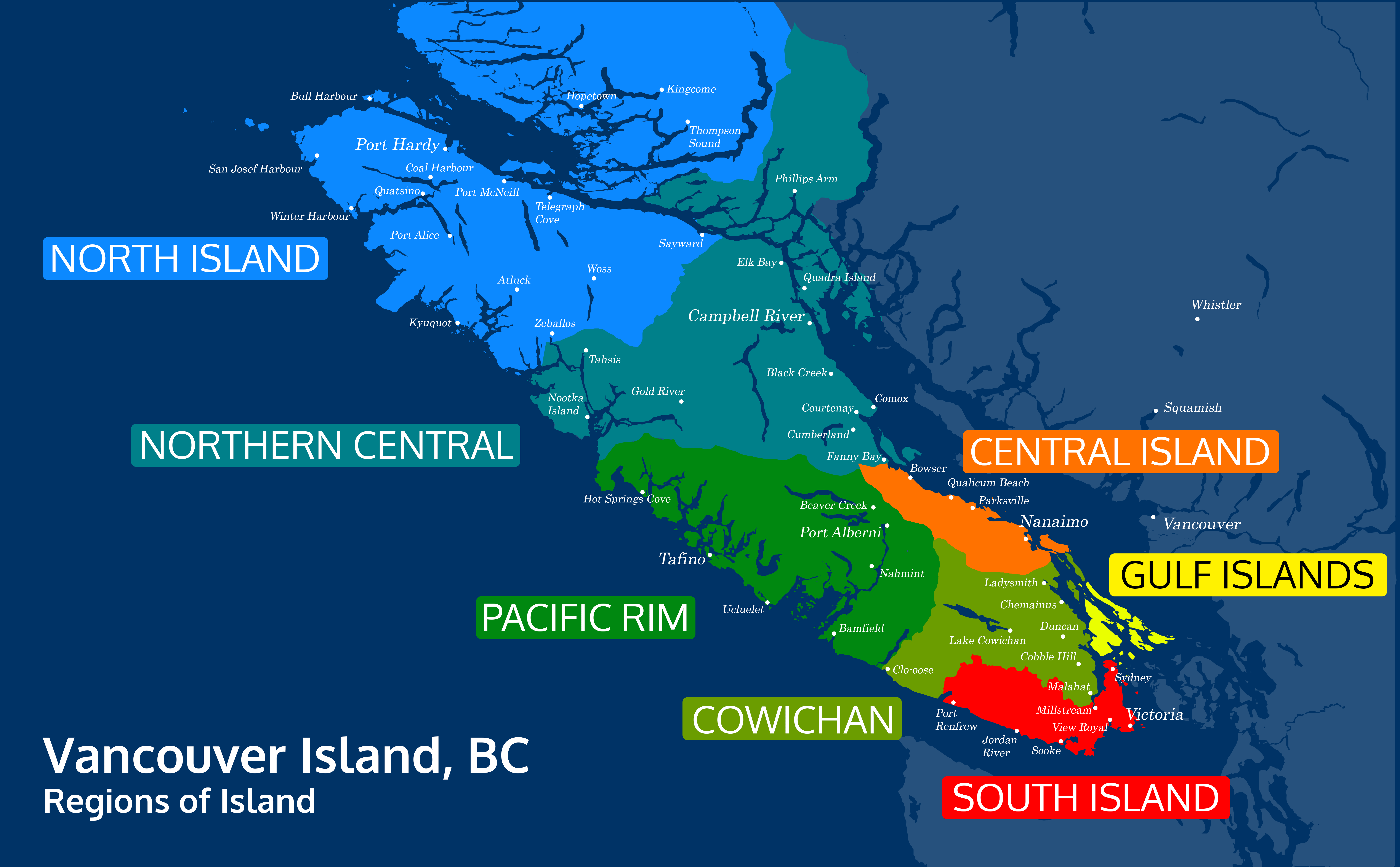 The major regions of Vancouver Island, B including main cities on the Island.